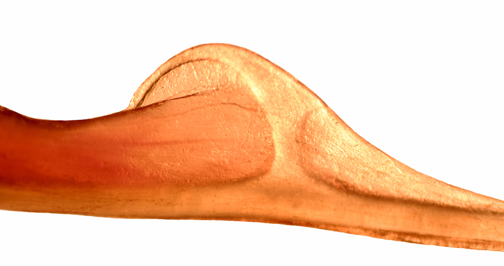 Anatomy of postcaclarial lobe of Eptesicus lobatus